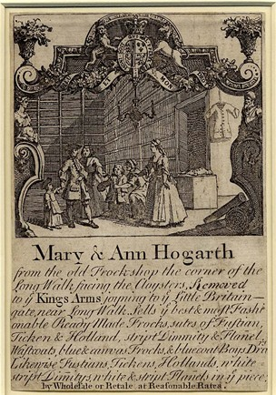 Courtesy of British Museum #1853,1210.540